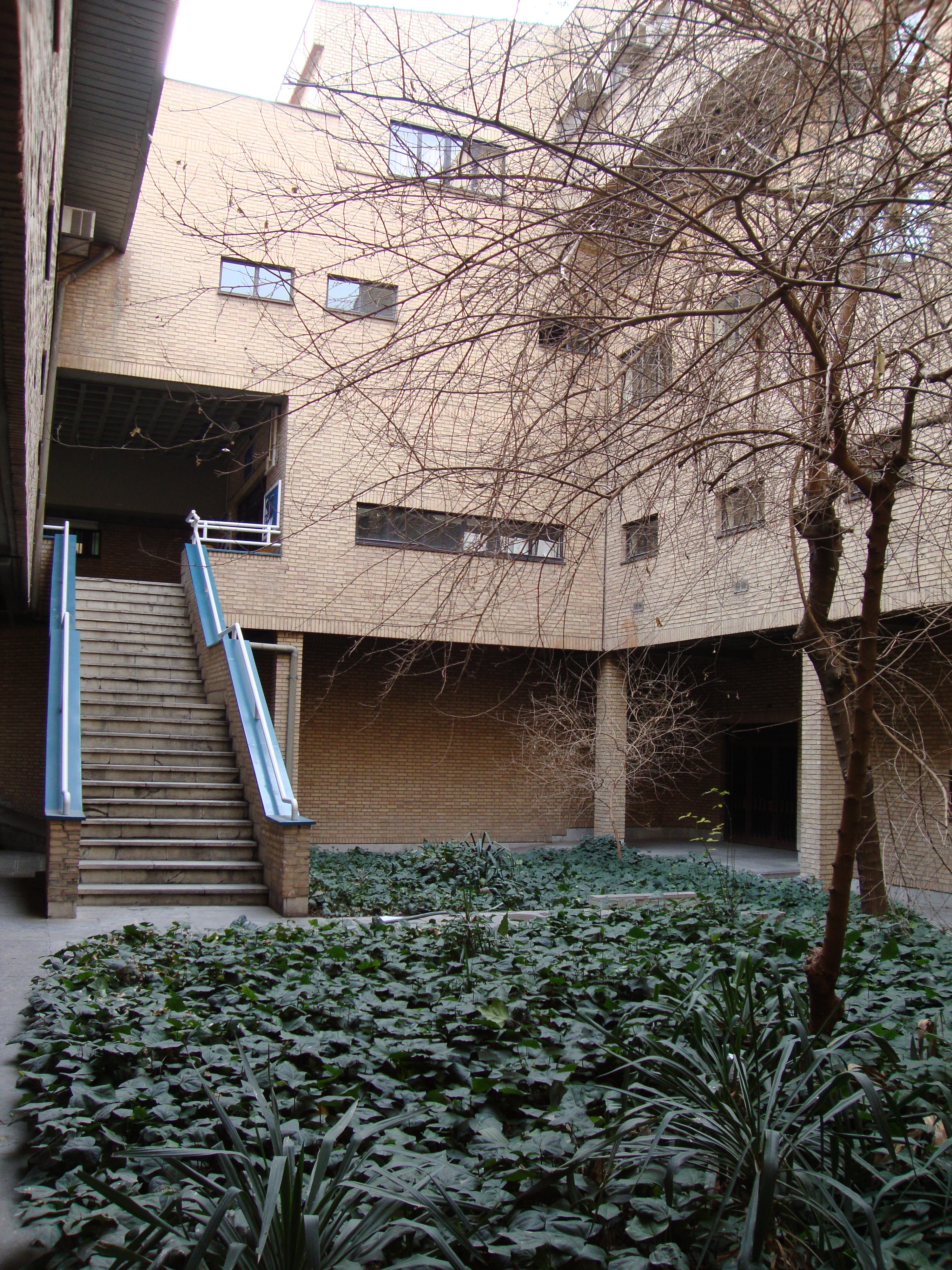 Outline view of School of Mechanical Engineering, Iran University of Science and Technology